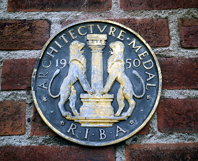 R.I.B.A. plaque, Whitla Hall. A Royal Institute of British Architects plaque on the front of the Whitla Hall 717310 at Queen's University. The hall was completed in 1949.